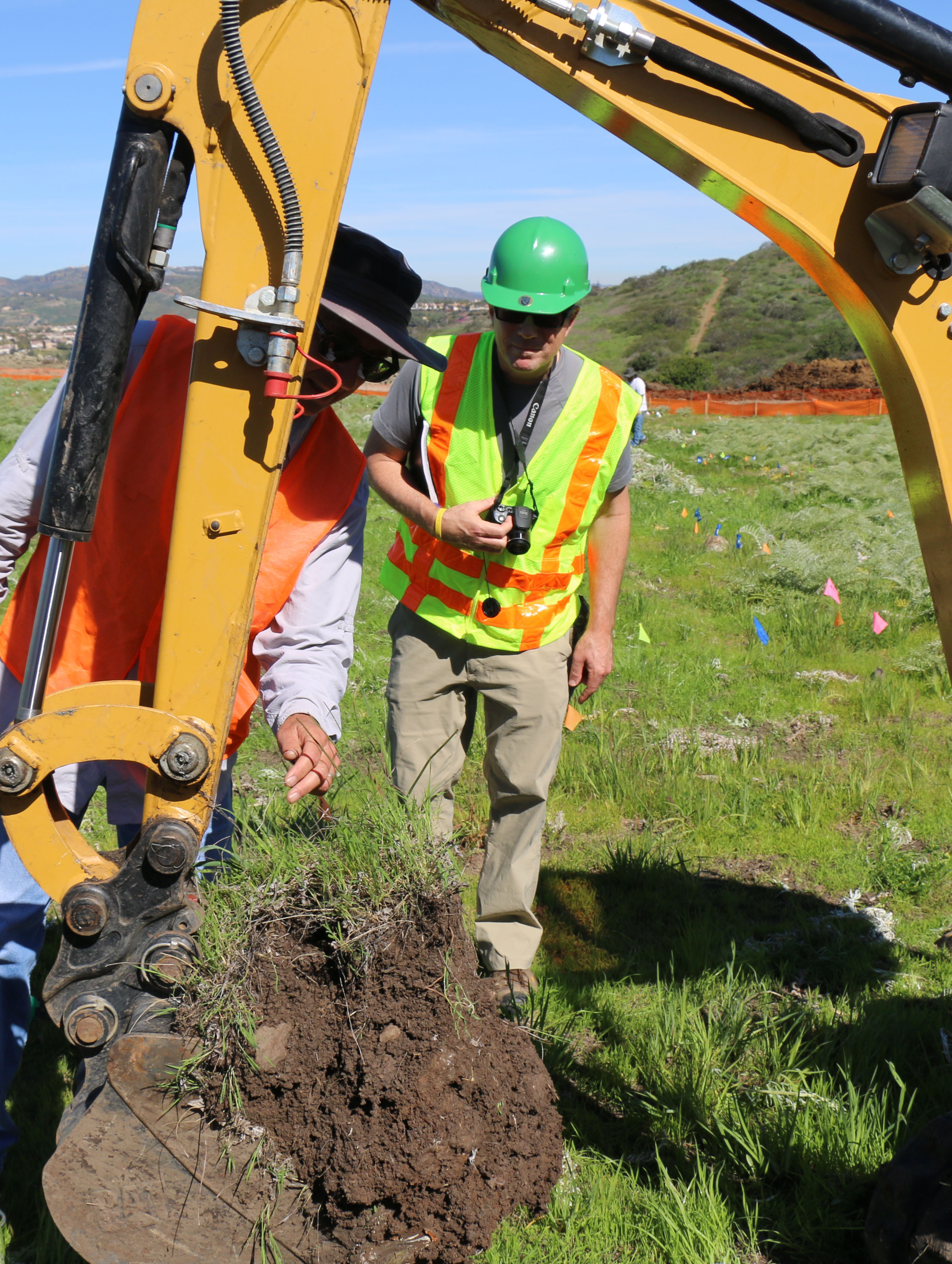 Thread leaved brodiaea is being moved from the development area to the nearby brodiaea preserve. Photo by Joanna Gilkeson/USFWS.